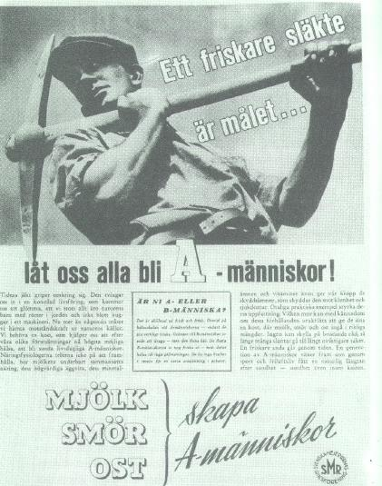 "Are you an A- or B-man? There is a difference between healthy and healthy. Highest on the health scale are the A-men - only they are really healthy. The borderline to the B:man is difficult to draw - but it is there. Most B:men look healthy - but their health does not stand up to strains. They have no power in reserve for an extra exertion in the work." Ad in the Swedish Svenska Mejeriernas Riksförenings blad, 1937.